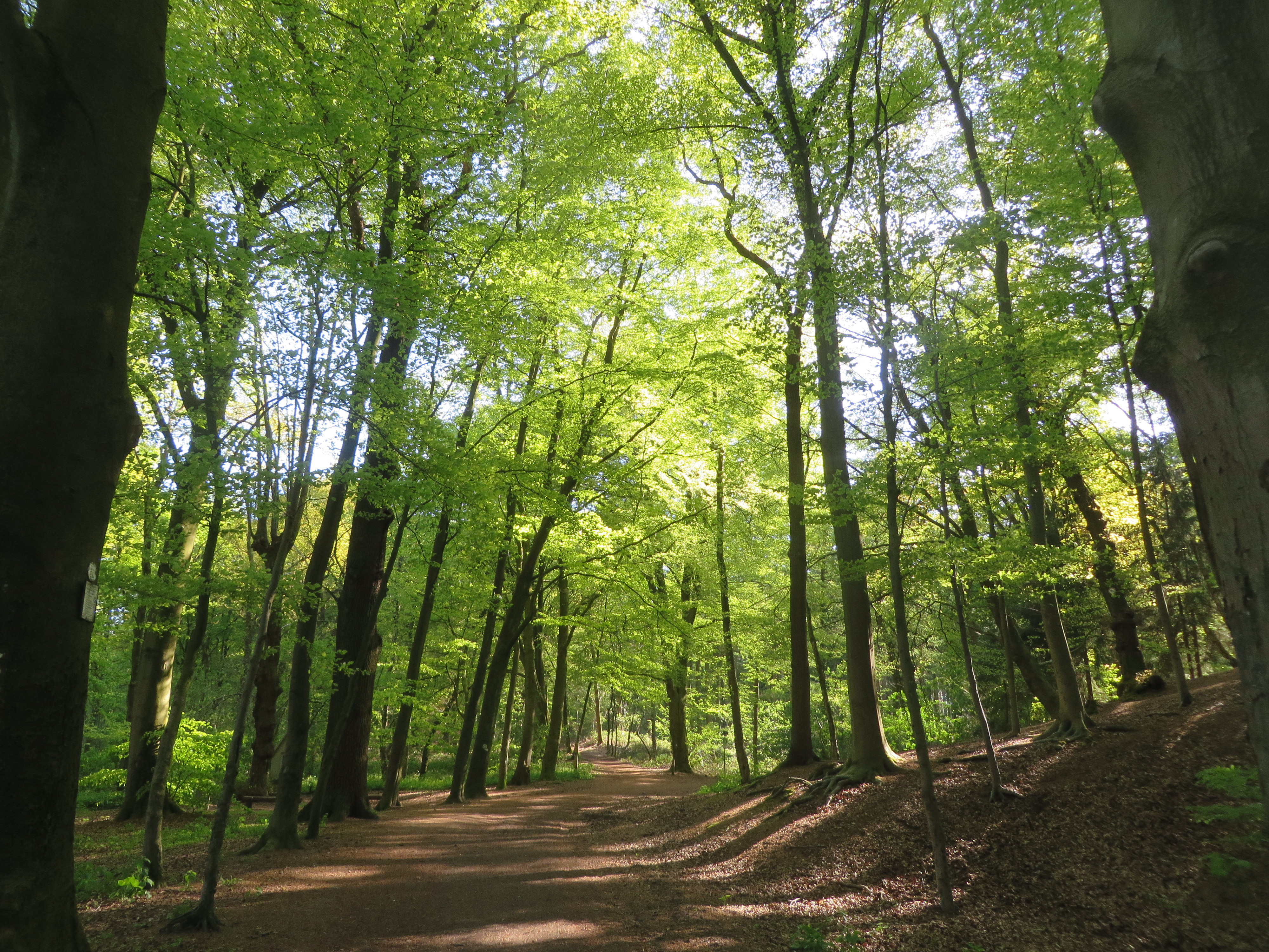 Foliation of beech trees in springtime, forest at Stappweg in "Leucht" nature reserve in Kamp-Lintfort (Germany)